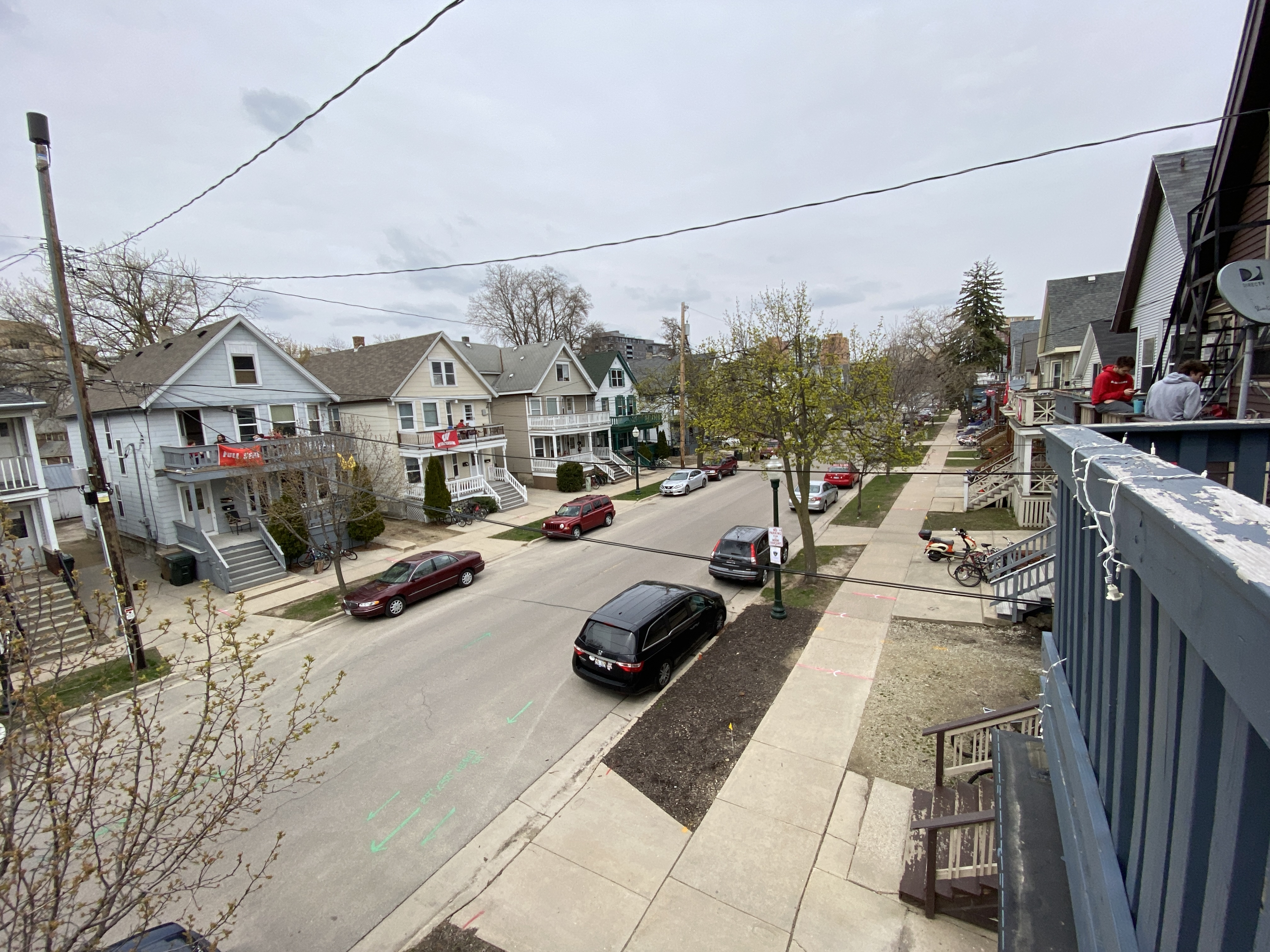 Mifflin Street Block Party cancelled due coronaavirus, taken at 2:38 pm